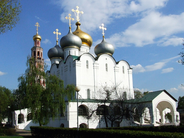 Novodevichy Convent